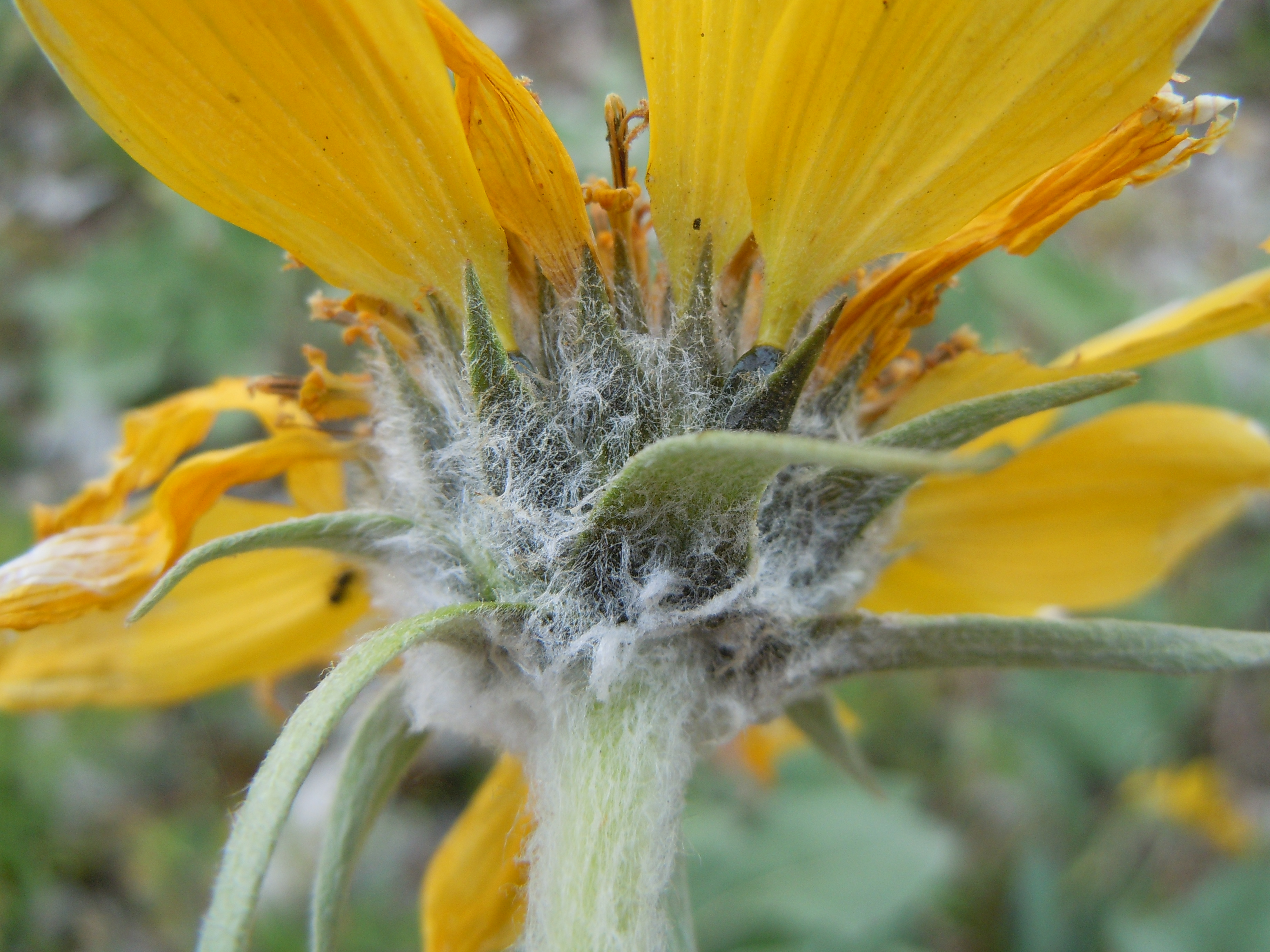 The involucral bracts are woolly and broadly lance-shaped.